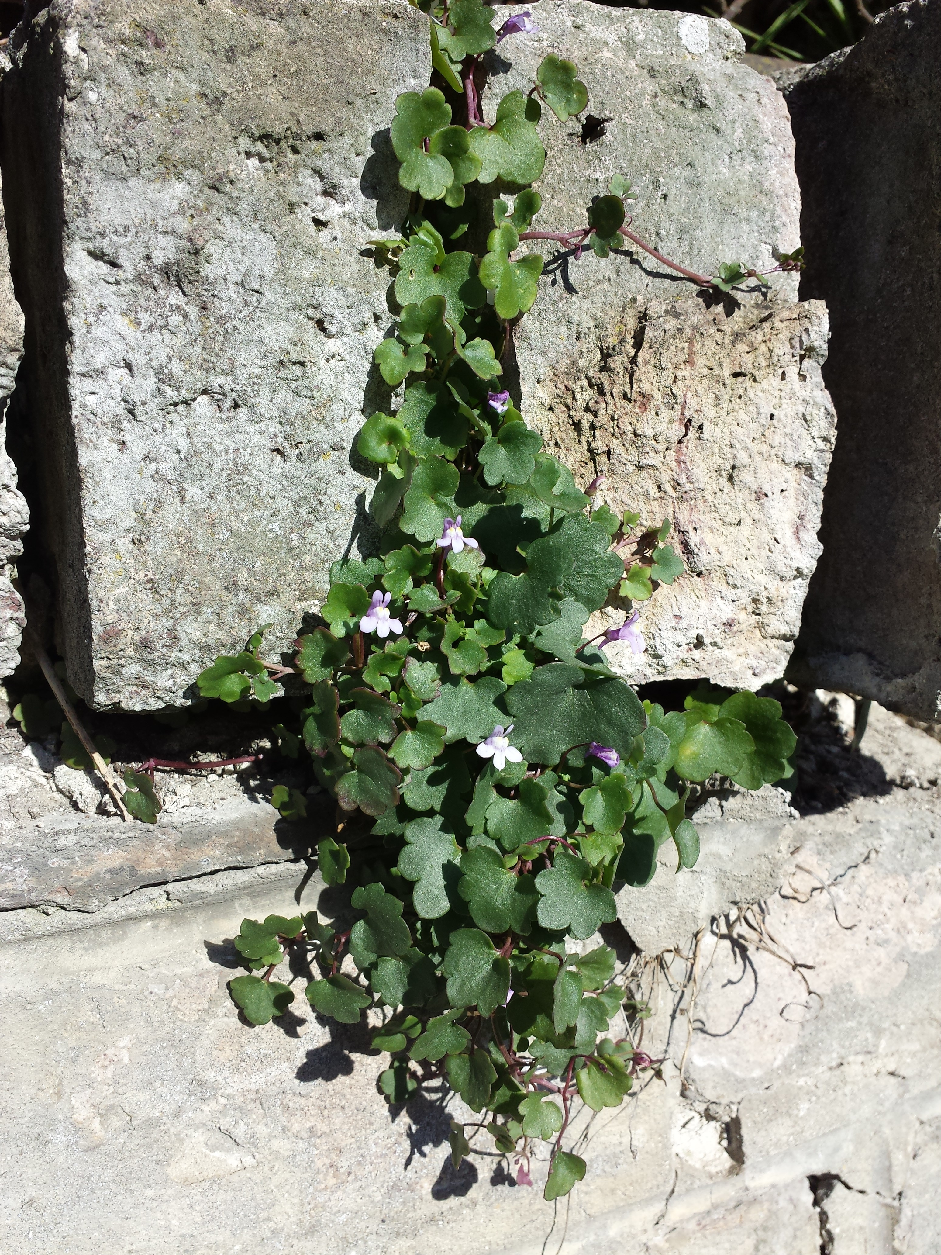 Habitus Taxonym: Cymbalaria muralis ss Fischer et al. EfÖLS 2008 ISBN 978-3-85474-187-9 Location: Karnabrunn, district Korneuburg, Lower Austria - ca. 300 m a.s.l. Habitat: stone wall